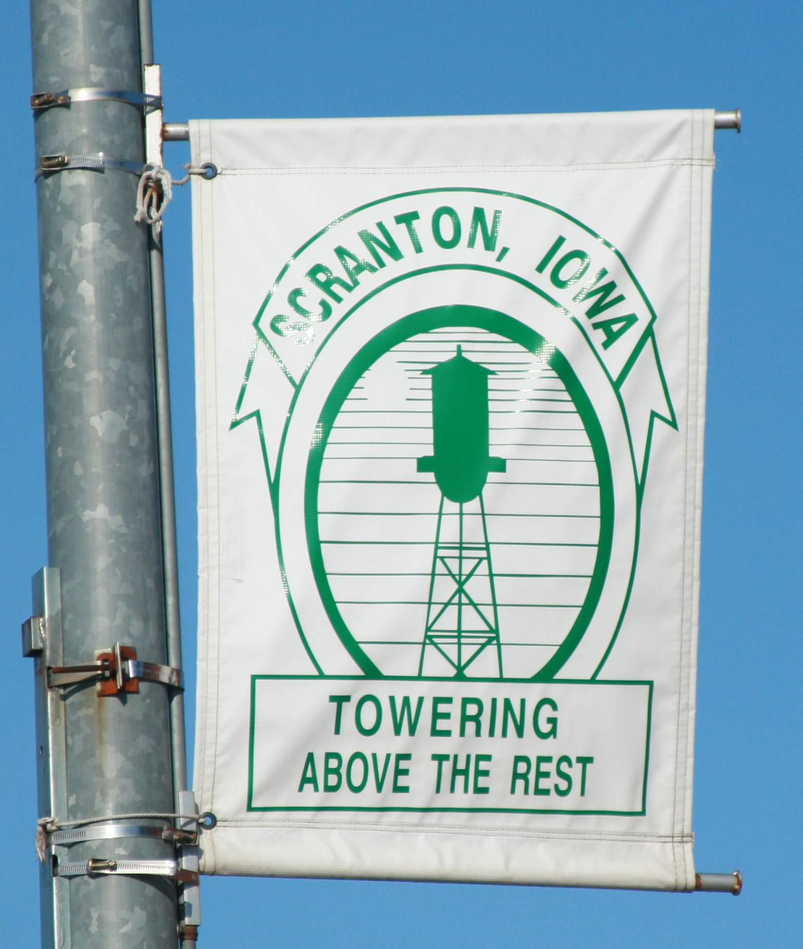 One of several banners hung from posts along Main Street in Scranton, Iowa.